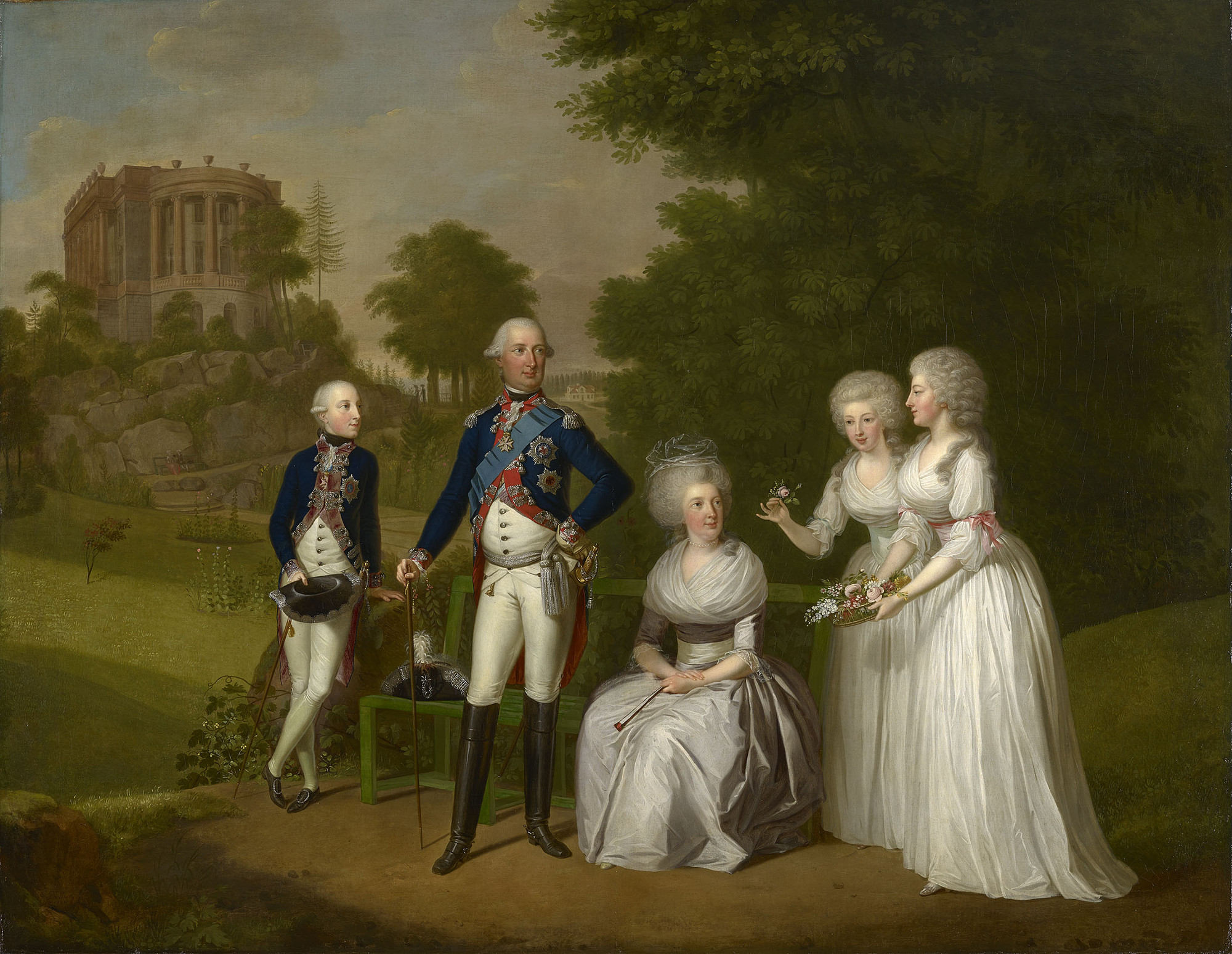 Wilhelm IX, Landgrave of Hesse-Cassel, later Elector Wilhelm I, his wife, Wilhelmine Caroline and their children, Wilhelm, Friederika and Caroline